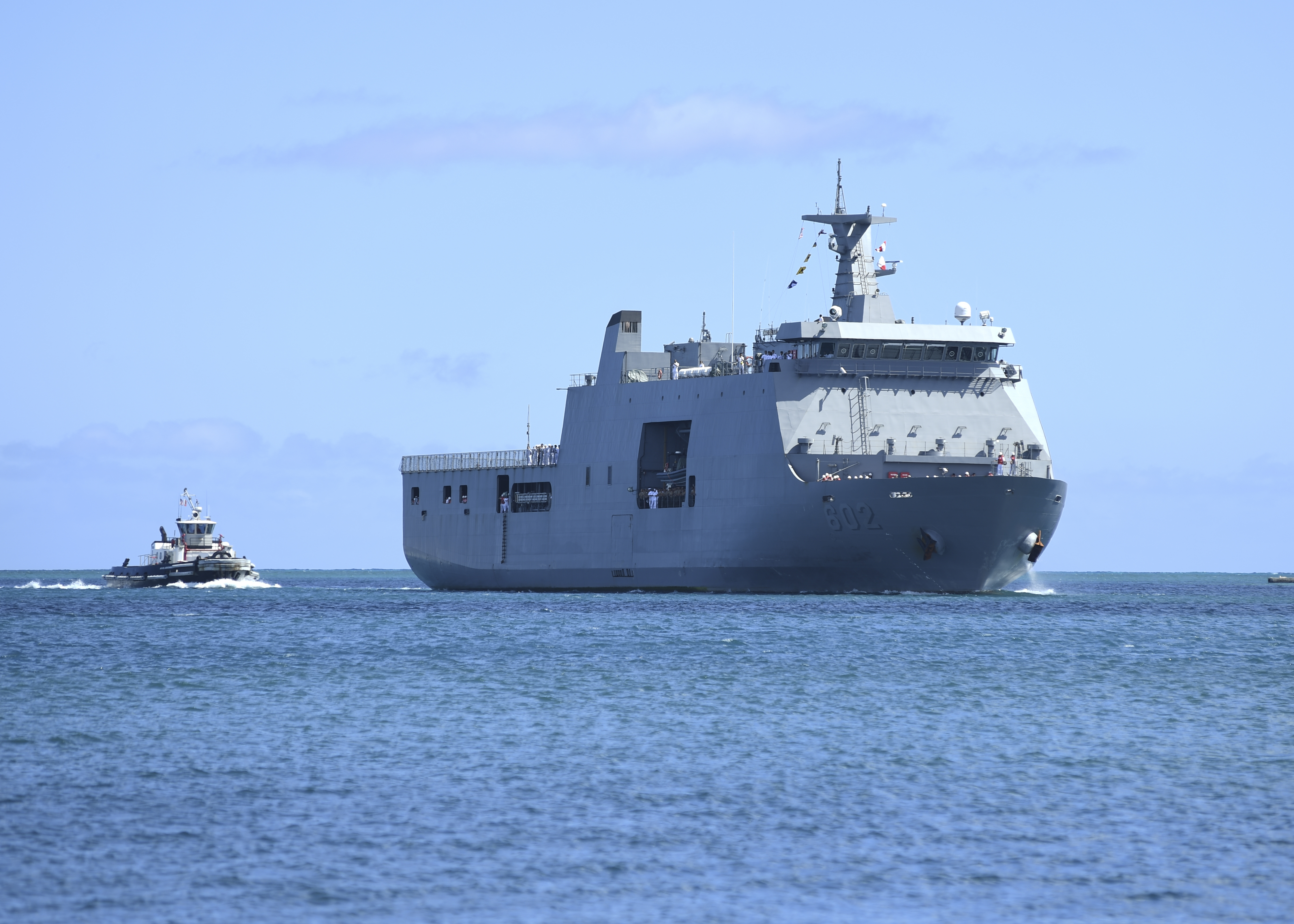 180625-N-KR702-0088 PEARL HARBOR (June 25, 2018) Philippine Navy landing platform dock BRP Davao Del Sur (LD 602) arrives at Joint Base Pearl Harbor-Hickam in preparation for Rim of the Pacific (RIMPAC) exercise. Twenty-six nations, more than 45 ships and submarines, about 200 aircraft and 25,000 personnel are participating in RIMPAC from June 27 to Aug. 2 in and around the Hawaiian Islands and Southern California. The world’s largest international maritime exercise, RIMPAC provides a unique training opportunity while fostering and sustaining cooperative relationships among participants critical to ensuring the safety of sea lanes and security of the world’s oceans. RIMPAC 2018 is the 26th exercise in the series that began in 1971. (U.S. Navy photo by Mass Communication Specialist 1st Class Holly L. Herline)